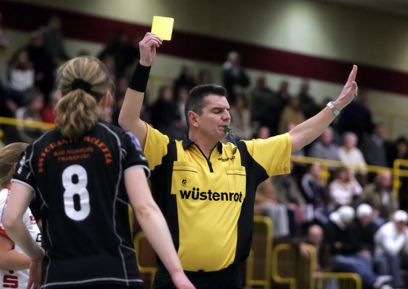 Yellow Card, shown by the referee during the handball game HSG Bensheim/Auerbach - TSG Ober-Eschbach, on January 27th 2007 in the Weststadt Hall in Bensheim (Germany).